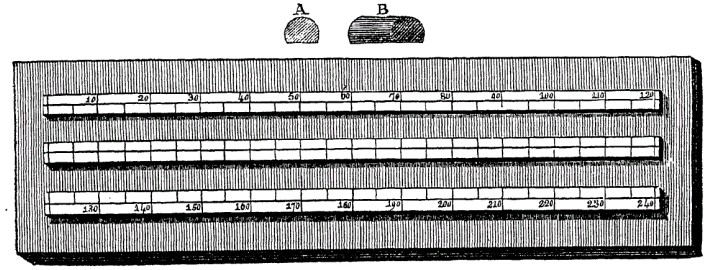 Device to read temperature on the Wedgwood scale. (1832) Natural Philosophy. Volume 2. Popular Introductions to Natural Philosophy. Newton's Optics. Description of Optical Instruments. Thermometer and Pyrometer. With an Explanation of Scientific Terms, and an Index, pp. 27–30 ISBN: 9780543881069.